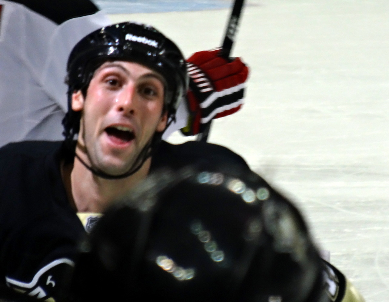 Pittsburgh Penguins defenseman Robert Bortuzzo celebrates following his first NHL goal, scored against New Jersey Devils goaltender Martin Brodeur in a 5-1 win on February 2, 2013 at Consol Energy Center in Pittsburgh, PA.